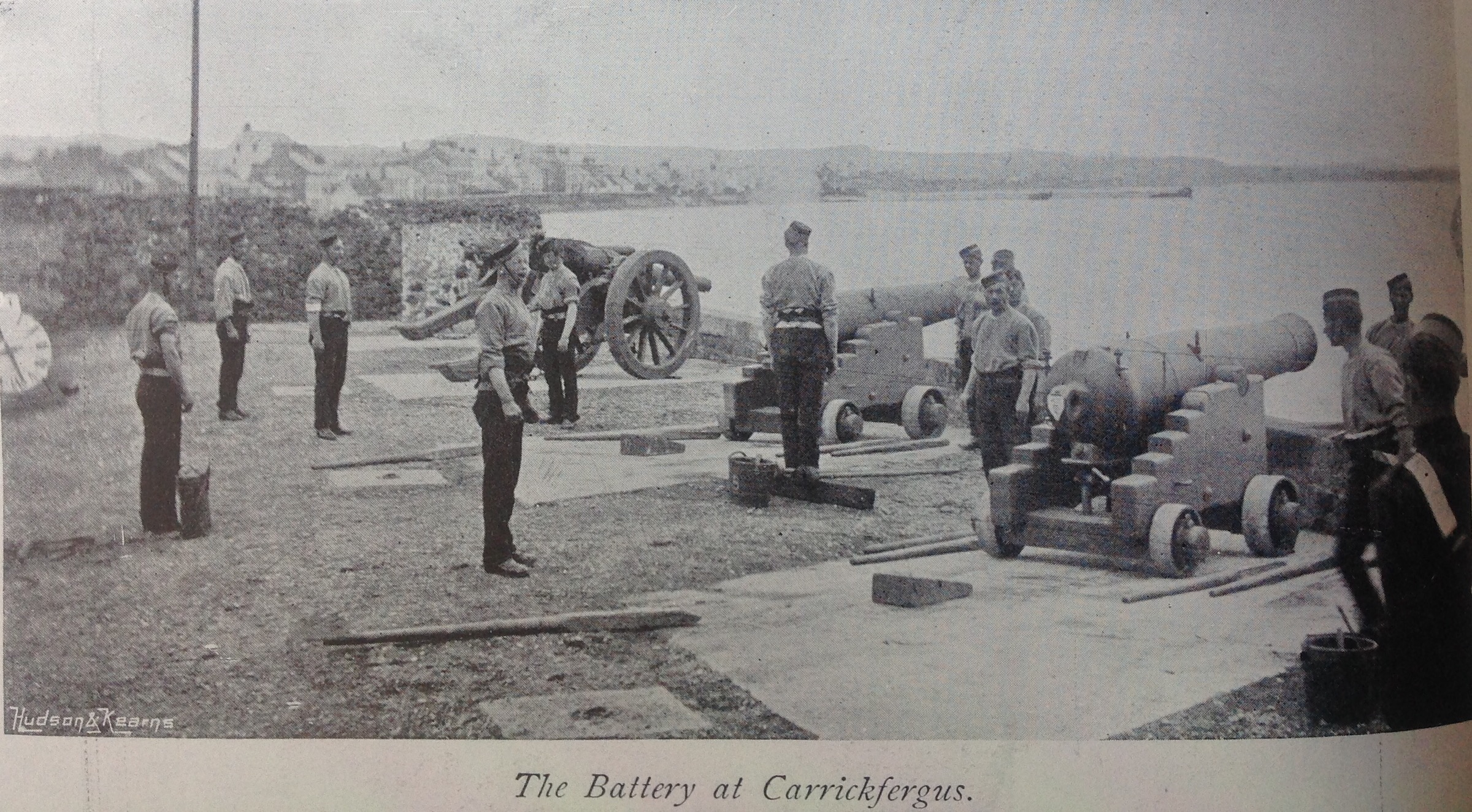 Antrim Militia Artillery at Carrickfergus Castle. From the Navy and Army Illustrated, 1897